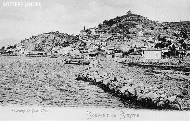 Göztepe, a suburb of Izmir, Turkey, circa 1880s